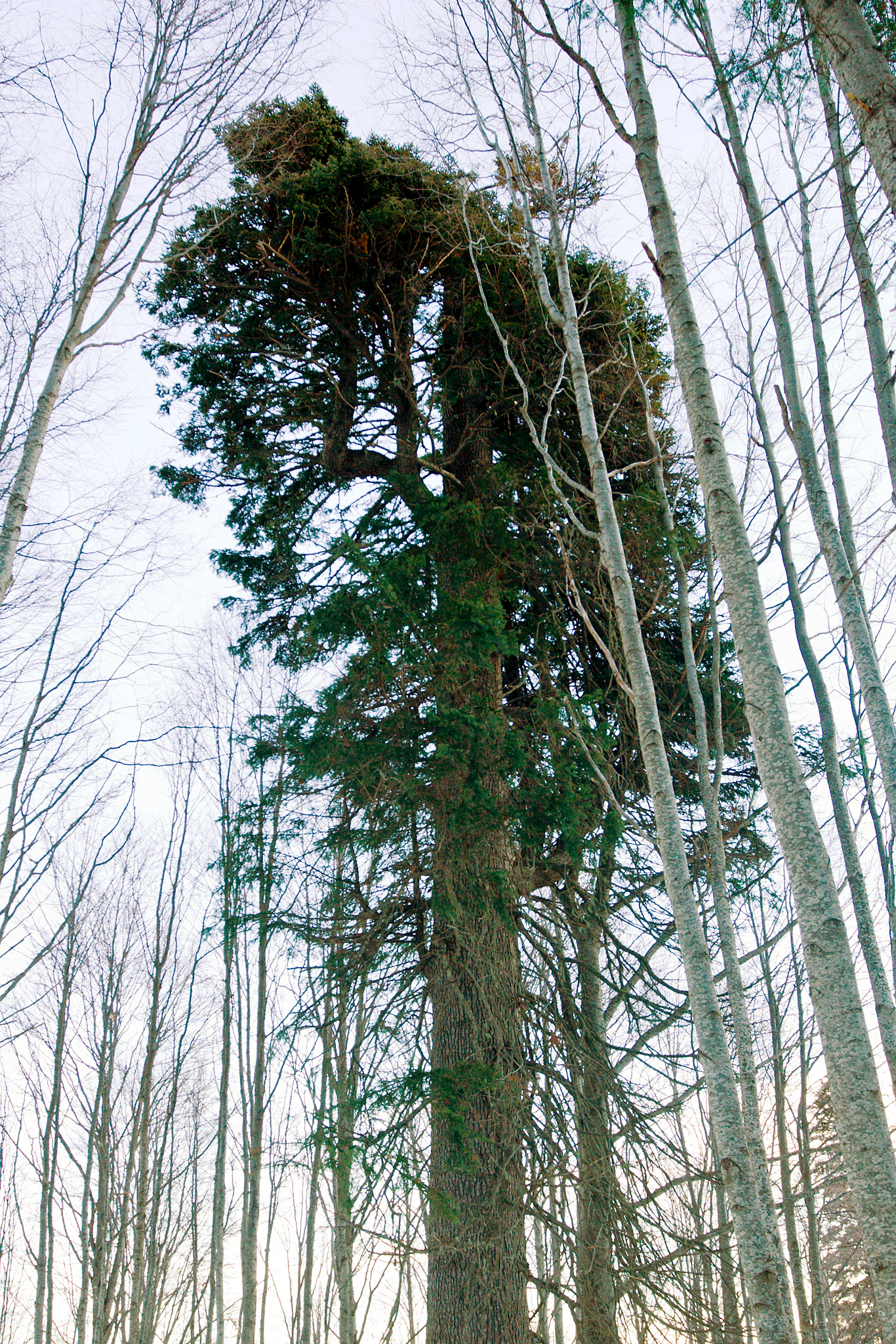 Visokata ela - a centuries-old Bulgarian Fir tree in Pirin mountain, Bulgaria